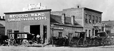 Second Ward Carriage & Wagons Works, C. Abresh, proprietor, 1880. The company was founded in 1871, and was reorganized in 1884 as the Charles Abresch Co., a stock Company.